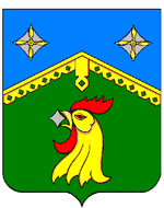 Tomilino coat of arms Russian Heraldic Register no. 142 Textual description: "On a sky-blue (azure) field a golden-upon-green rafter, whith truncated toothing at the bottom, where each tooth have a green rhomb in it. Out of the center of the rafter in a straight down direction a golden shingle appears, which is connected with the same hexagonal tooth with green rhomb in it. Above the rafter there are two silver concaved rhomb, each with a golden cross in it made by a two-bladed propeller. Below the rafter, in the center of a green plot, a golden rooster head with a red (dark red) comb, one eye and a beard. A rooster head is holding a silver concaved rhomb in an open beak.